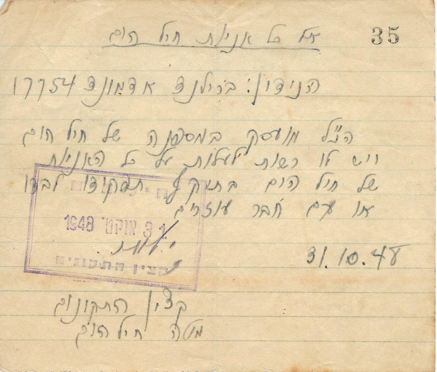 1948 Naval Orders Engineering Branch